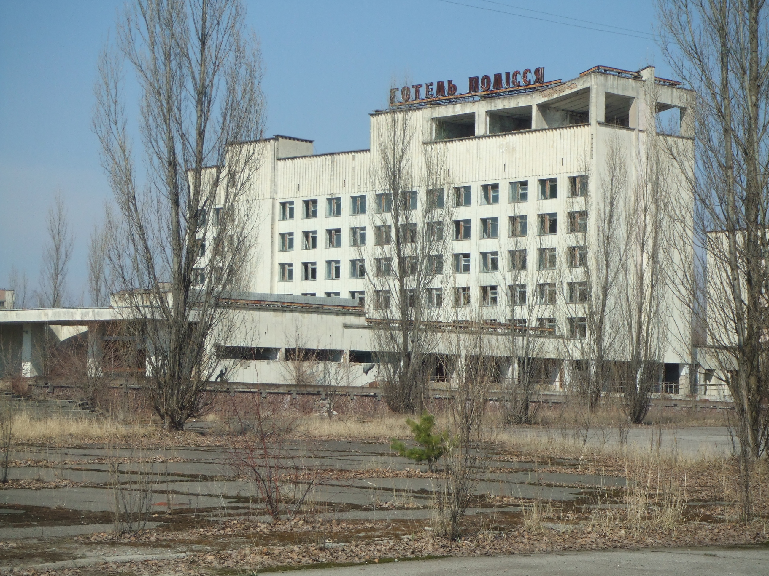 Pripyat - Hotel Polissia.